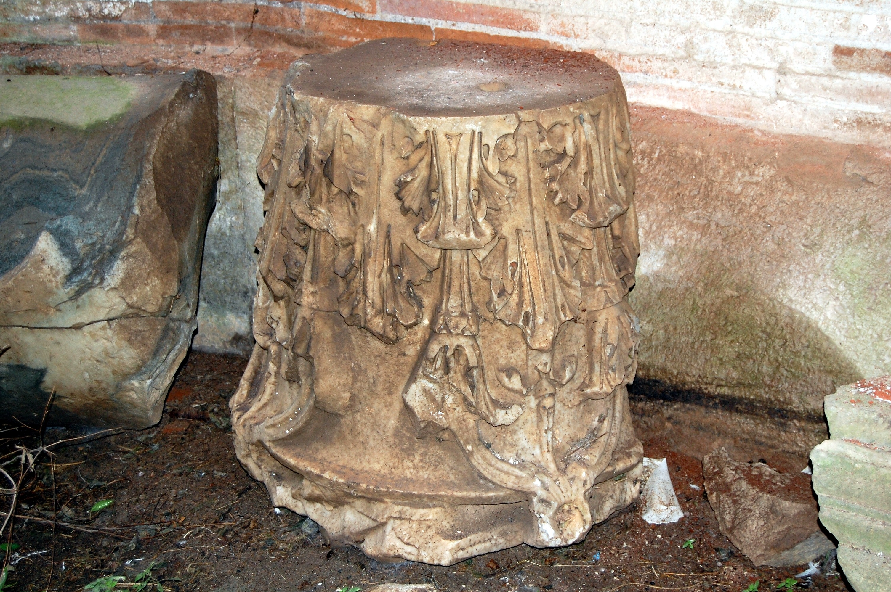 Inside the amphitheater of Santa Maria Capua Vetere